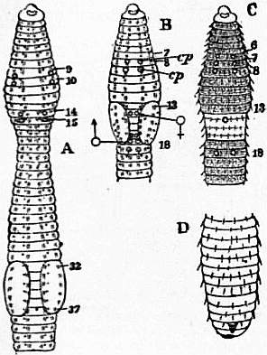 EB1911 Chaetopoda Fig. 10.—Diagrams of various Earthworms, to illustrate external characters